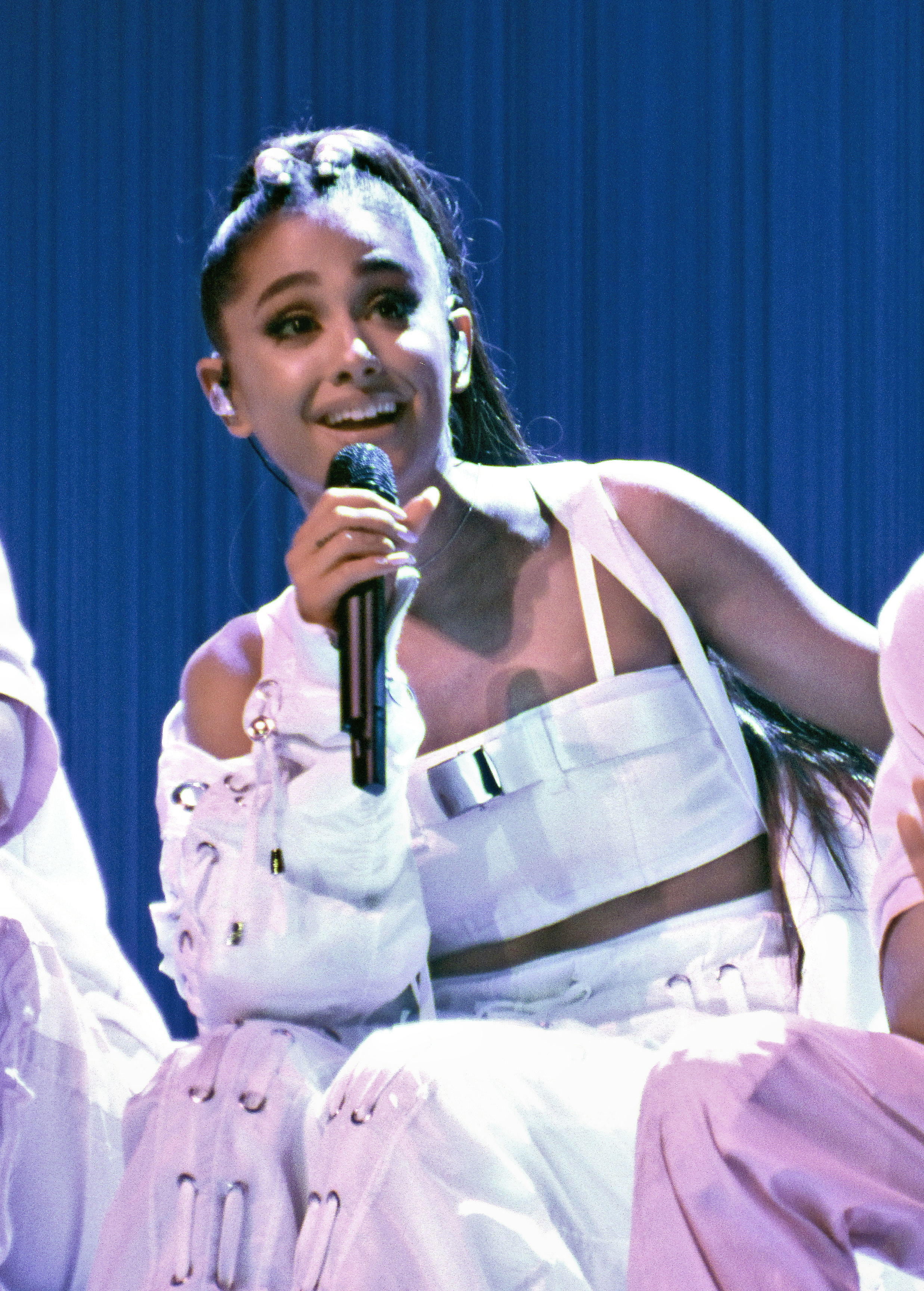 Dangerous Woman Tour 2/19/17 Ariana Grande performing during Dangerous Woman Tour in Manchester, New Hampshire, SNHU Arena, on February 19, 2017.